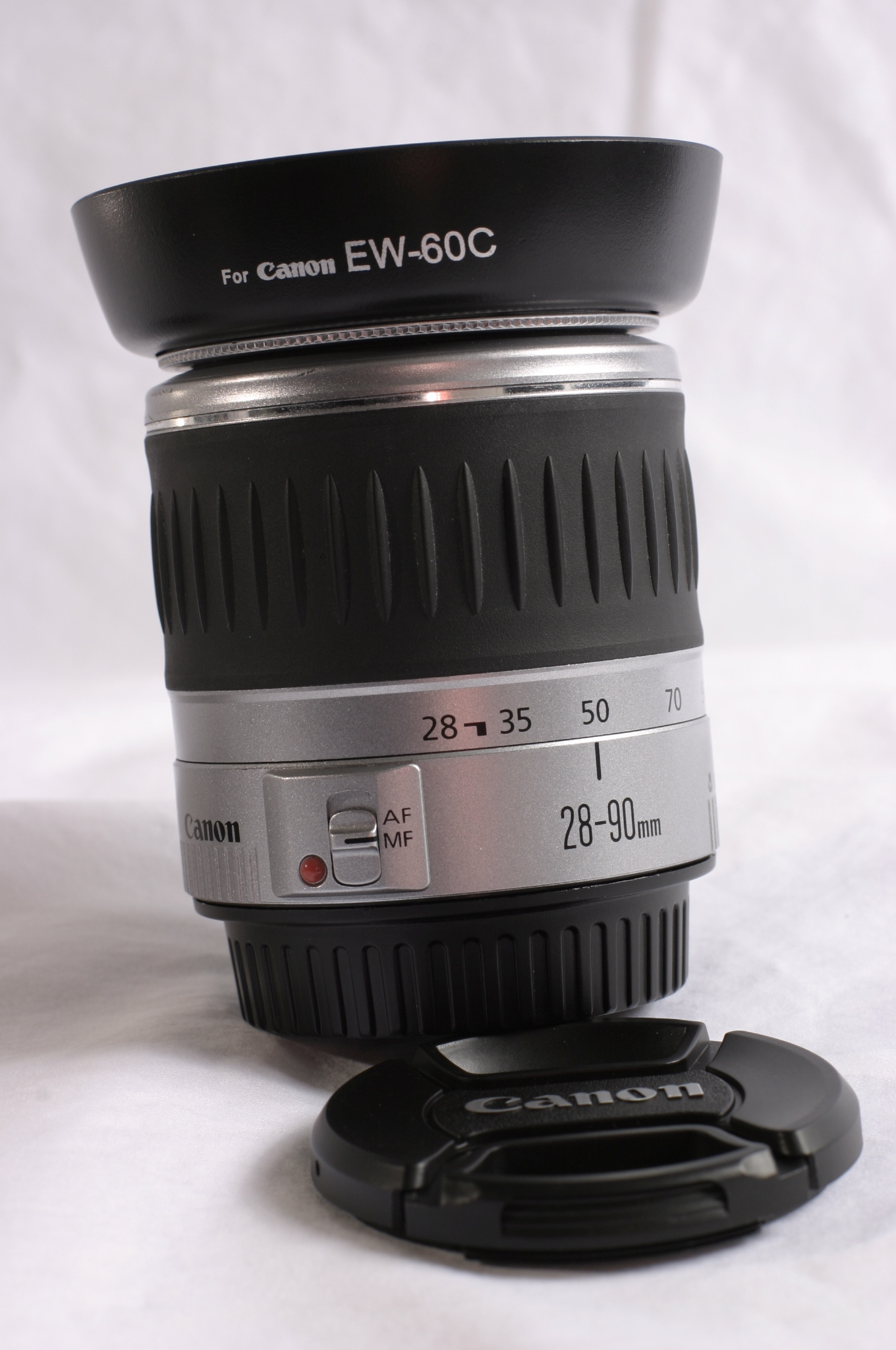 Canon EF 28-90mm f/4-5.6 II USM lens. Strobist Info: One Britek BB200 Fired at 1/4 power into an umbrella 2 ft subject right, Opteka EF600DG-C with Opteka mini softbox fired at 1/2 power, on a bookshelf 9ft camera left. Built in flash with Gary fong puffer covered by my hand to trigger strobes. Canon 10D, EF50mm f/1.4, 1/90th, f/9.5, ISO100.